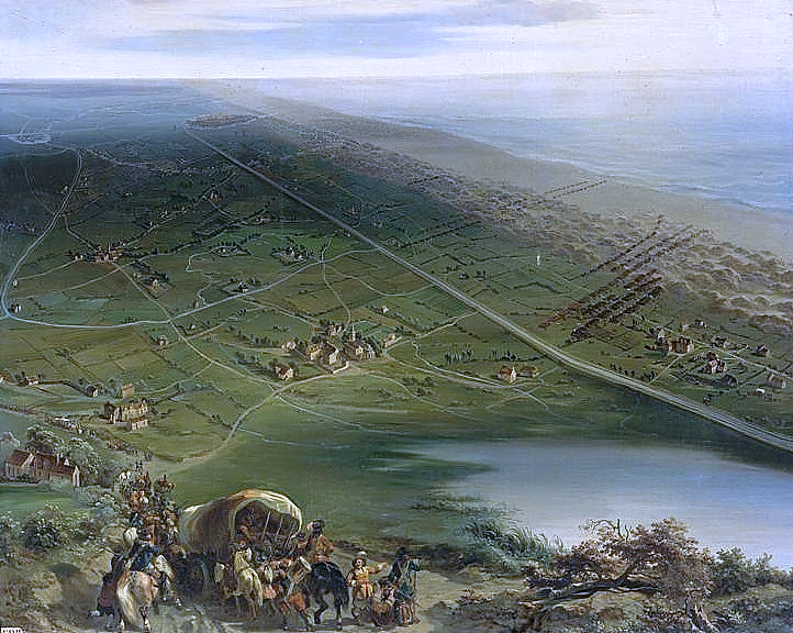 Panoramic view on the Battle of Dunes in 1658.